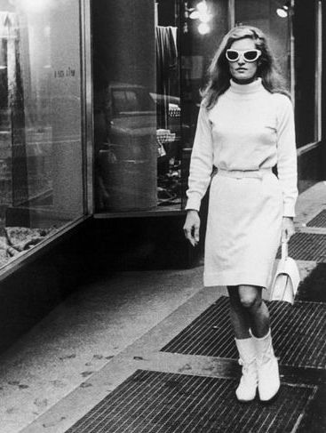 Dalida in Italy in 1966